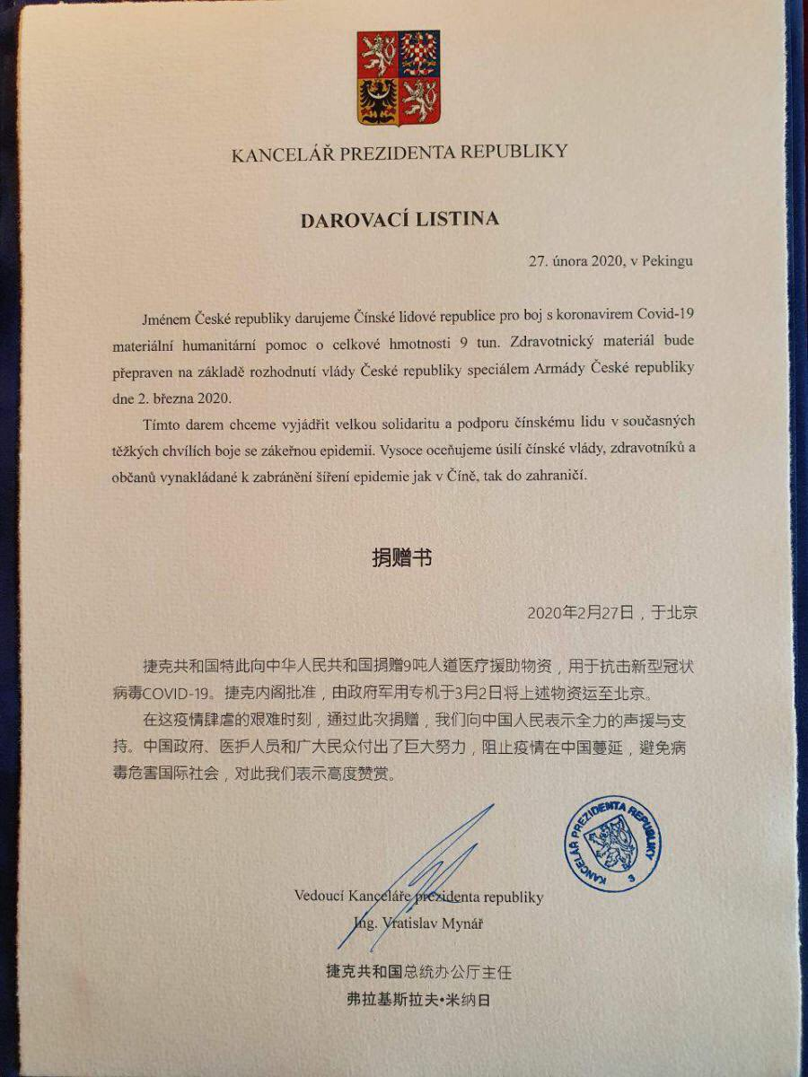 Deed of gift to China in COVID-19 pandemic